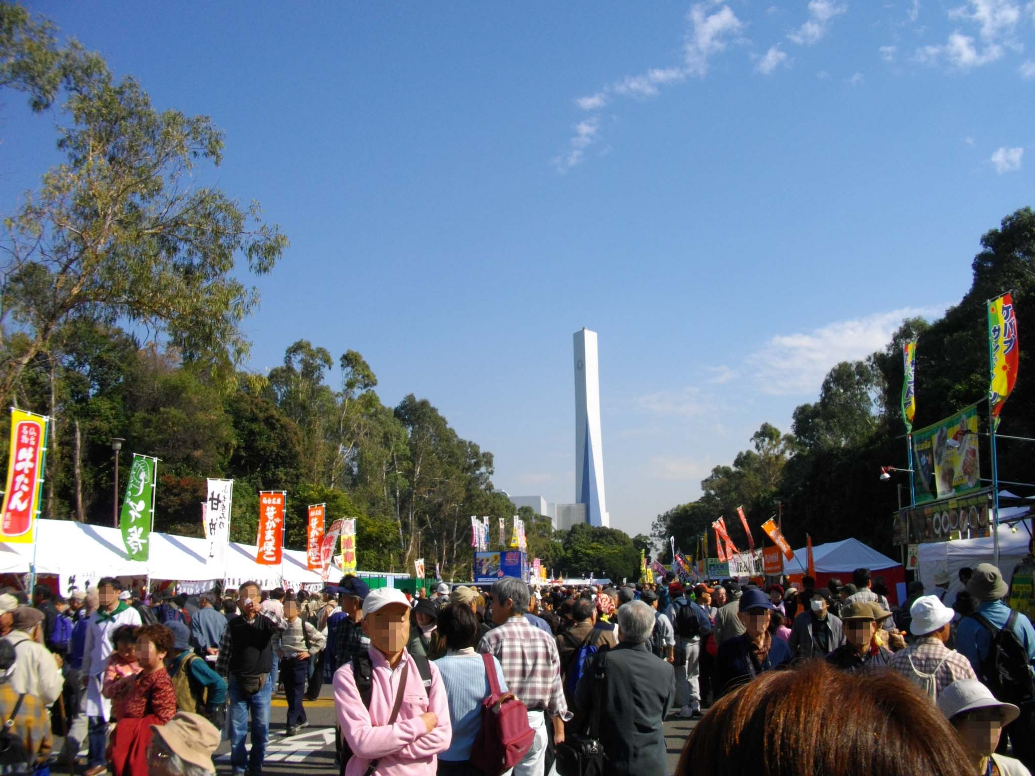 Akahata Matsuri